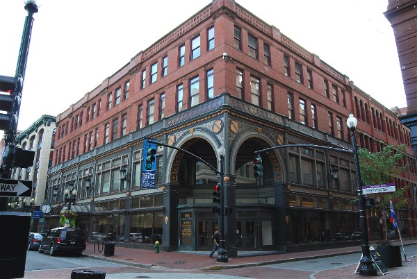 Shapard Company Building, Westminster Street entrance, Providence, Rhode Island (now occupied by URI)